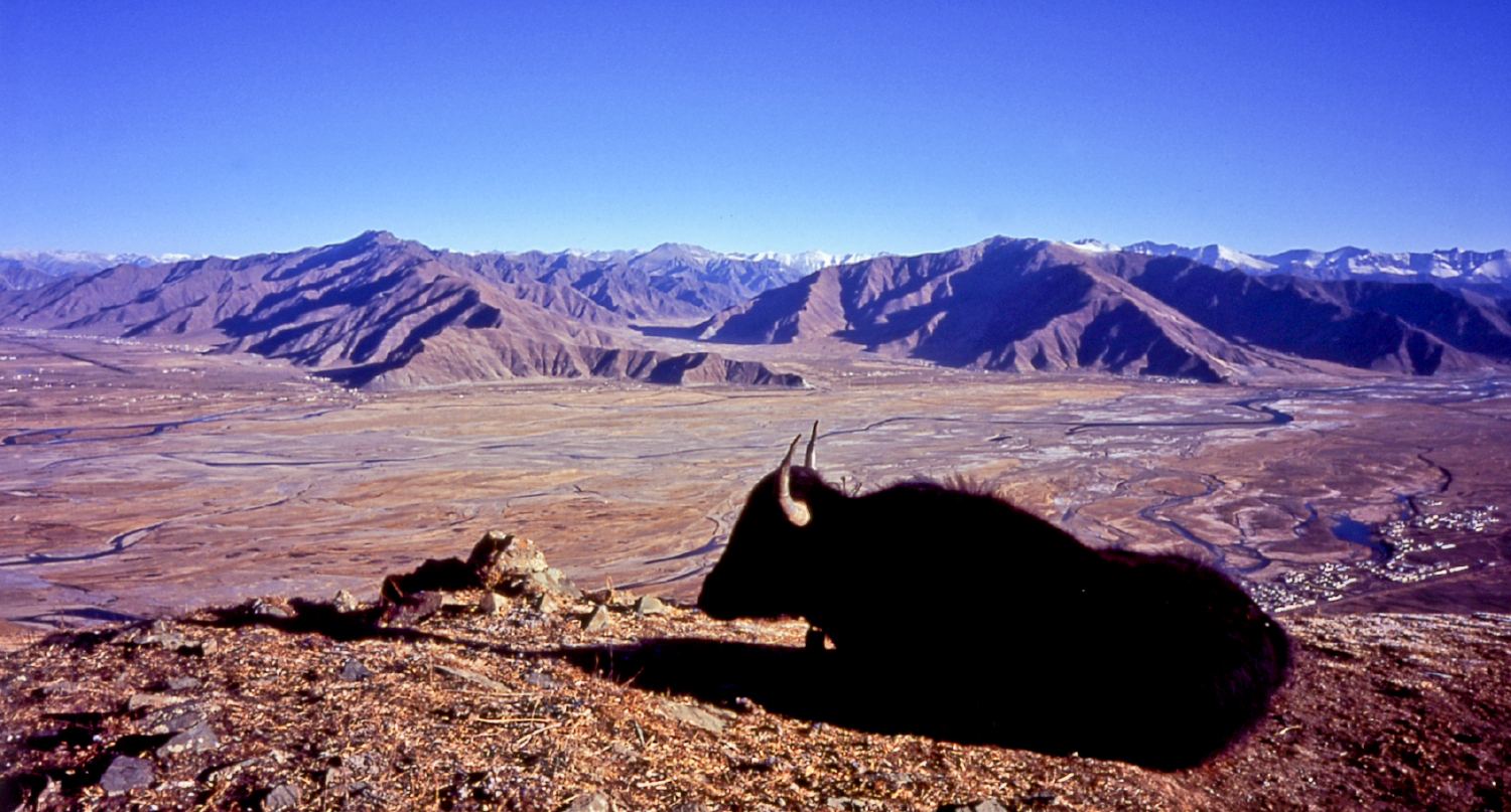 Landscape from Ganden with YAK (Bos grunniens)